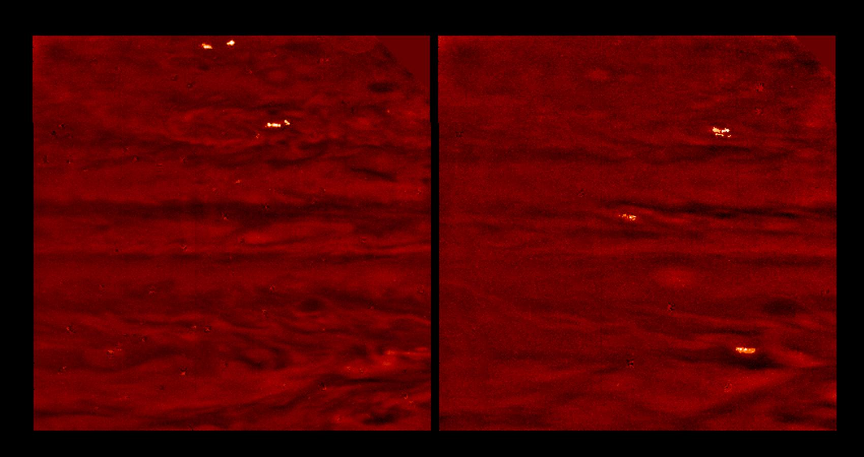 Jovian lightning and moonlit clouds. These two images, taken 75 minutes apart, show lightning storms on the night side of Jupiter along with clouds dimly lit by moonlight from Io, Jupiter's closest moon. The images were taken in visible light and are displayed in shades of red. The images used an exposure time of about one minute, and were taken when the spacecraft was on the opposite side of Jupiter from the Earth and Sun. Bright storms are present at two latitudes in the left image, and at three latitudes in the right image. Each storm was made visible by multiple lightning strikes during the exposure. Other Galileo images were deliberately scanned from east to west in order to separate individual flashes. The images show that Jovian and terrestrial lightning storms have similar flash rates, but that Jovian lightning strikes are a few orders of magnitude brighter in visible light. The moonlight from Io allows the lightning storms to be correlated with visible cloud features. The latitude bands where the storms are seen seem to coincide with the "disturbed regions" in daylight images, where short-lived chaotic motions push clouds to high altitudes, much like thunderstorms on Earth. The storms in these images are roughly one to two thousand kilometers across, while individual flashes appear hundreds of kilometer across. The lightning probably originates from the deep water cloud layer and illuminates a large region of the visible ammonia cloud layer from 100 kilometers below it. There are several small light and dark patches that are artifacts of data compression. North is at the top of the picture. The images span approximately 50 degrees in latitude and longitude. The lower edges of the images are aligned with the equator. The images were taken on October 5th and 6th, 1997 at a range of 6.6 million kilometers by the Solid State Imaging (SSI) system on NASA's Galileo spacecraft.